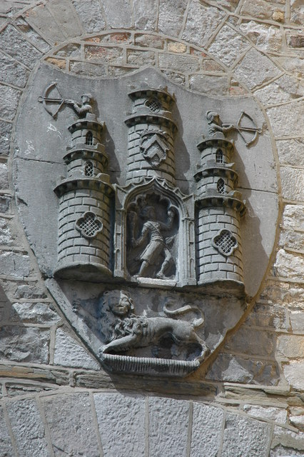 Shield on the Tholsel Wall